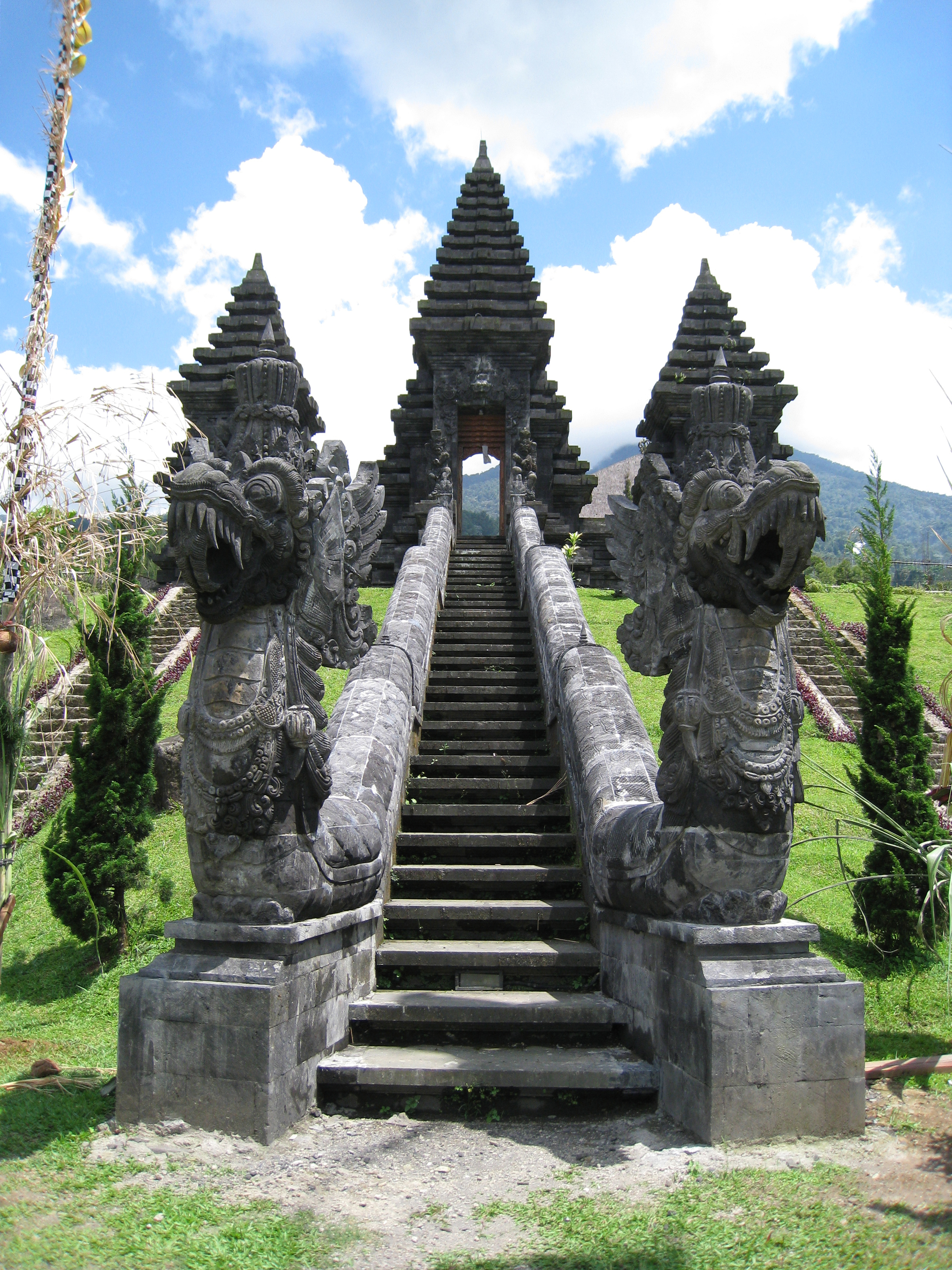 The triple Paduraksa gate and Naga stairs at Pura Parahyangan Agung Jagatkarta, a Nusantara Hindu temple on northern slope of Mount Salak in Bogor Regency, West Java, Indonesia.